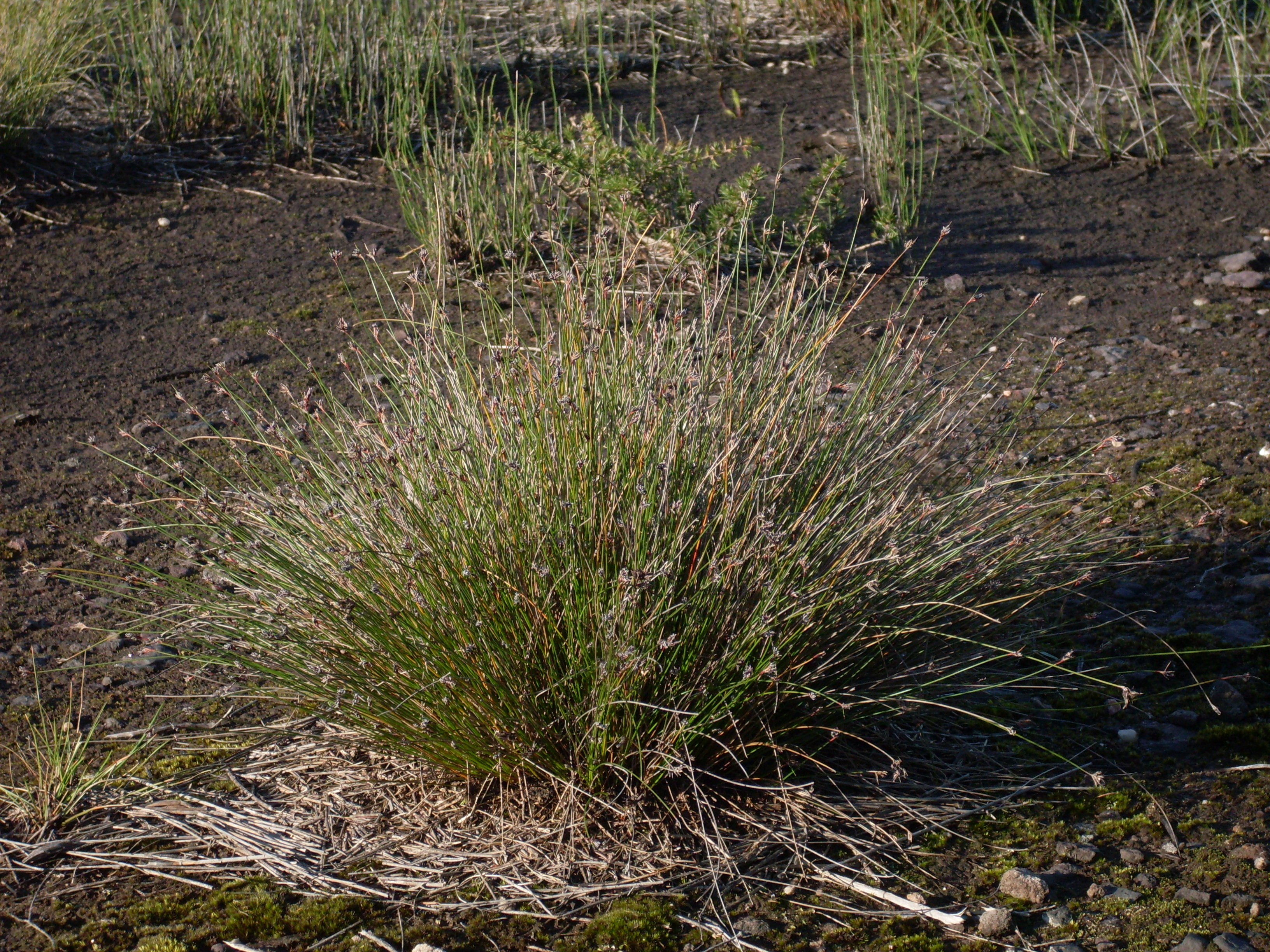 Beardless Bog-rush, probably Schoenus imberbis. Royal National Park, NSW Australia, May 2009.